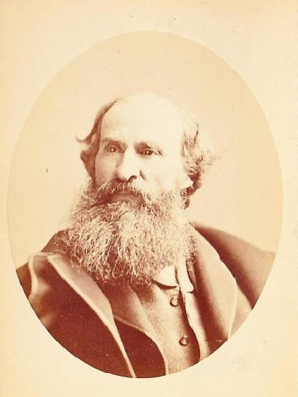 Photograph of Hablot Knight Browne